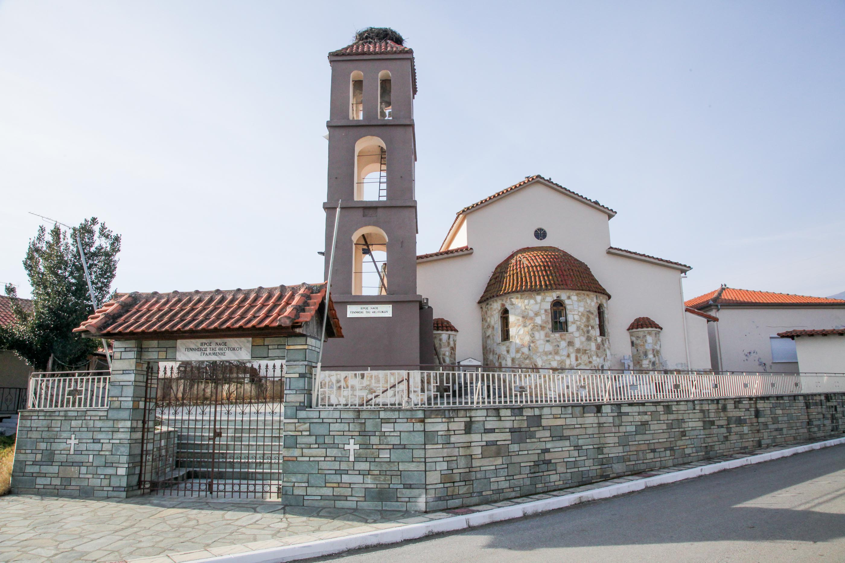 Church of Holy Mother Mary in Grammeni, Drama, Greece